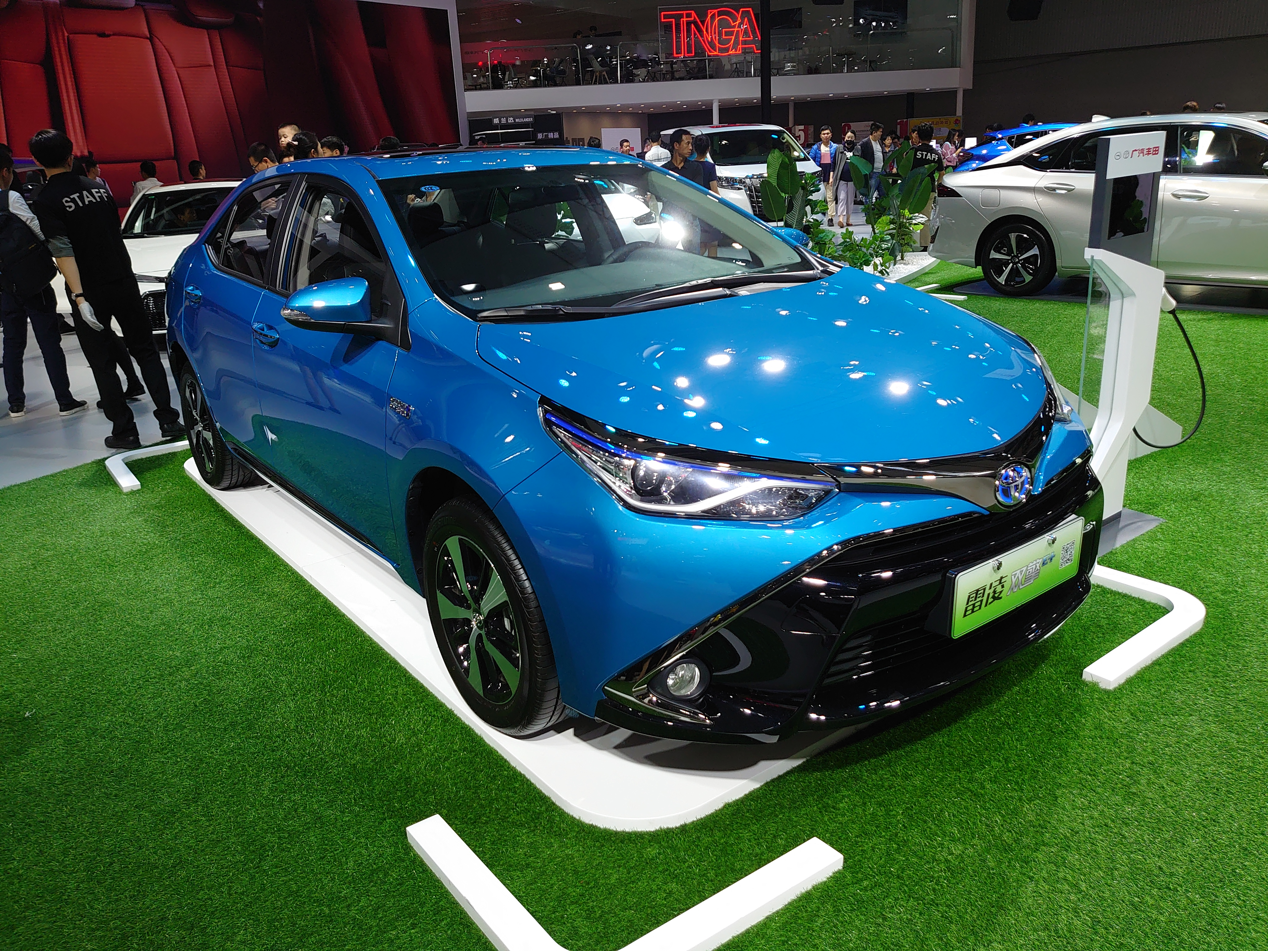 GAC Toyota Levin Hybird E+. Photographed in Guangzhou, Guangdong, China.